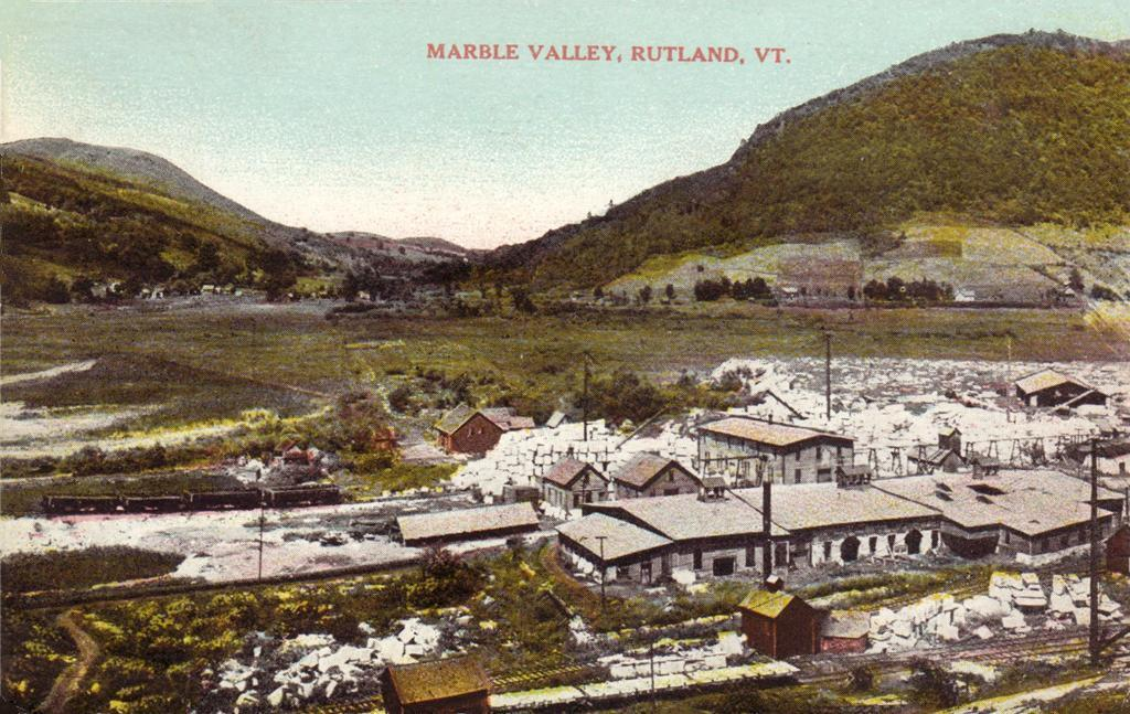 Marble Valley, Rutland, VT; from a 1911 postcard published by W. H. Gannett.